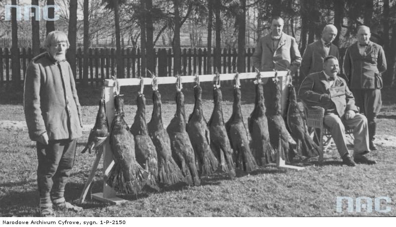 Prince Albrecht Anthony Wilhelm Radziwill (1885-1935) and participants of a hunting -- in a forest near Nesvizh castle (Nesvizh town, Poland) - the prince sits right next to shooted birds (western capercaillie). Photo between 1925-1935 AD